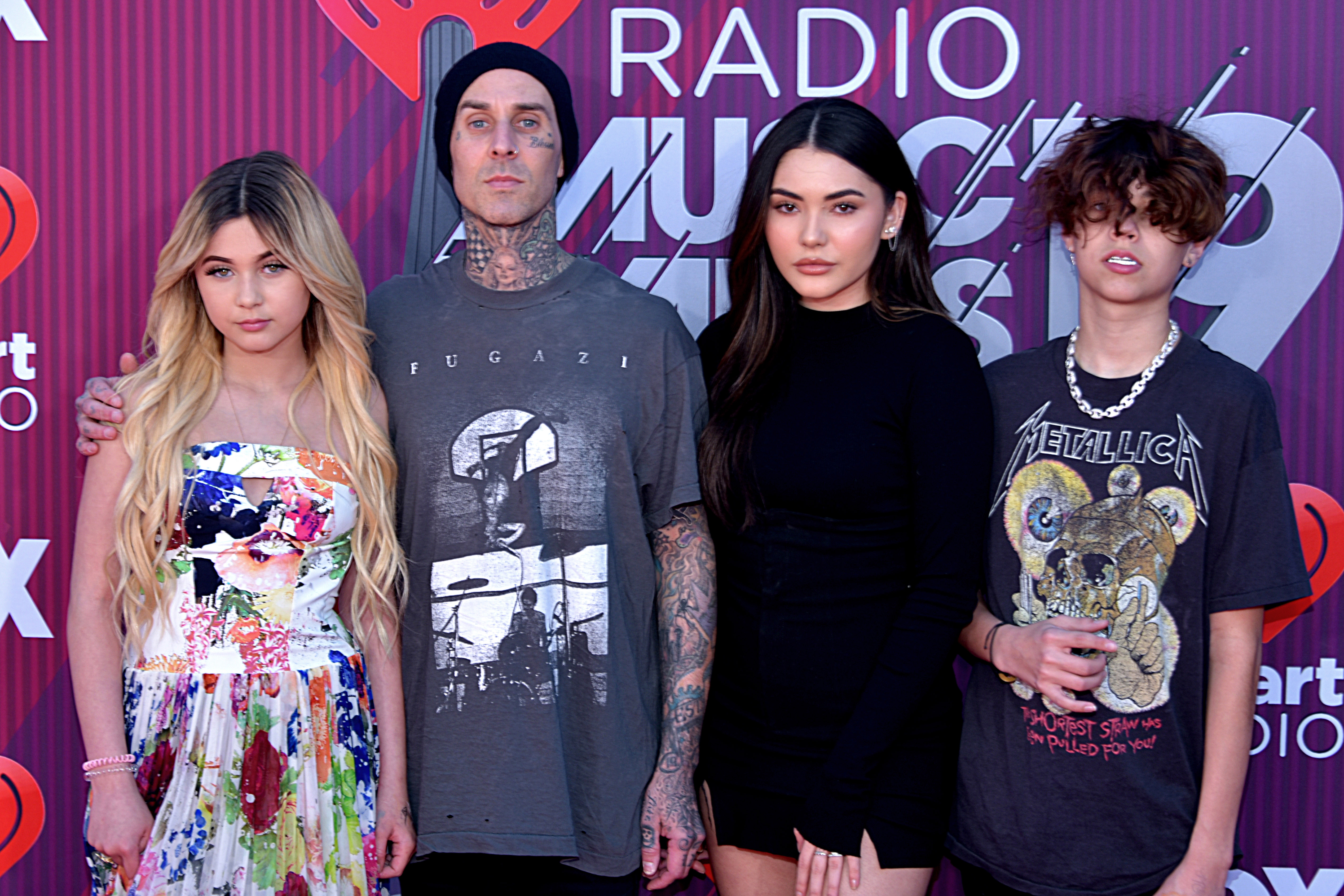 Travis Barker and Family at the 2019 iHeartMusic Awards in Los Angeles, California